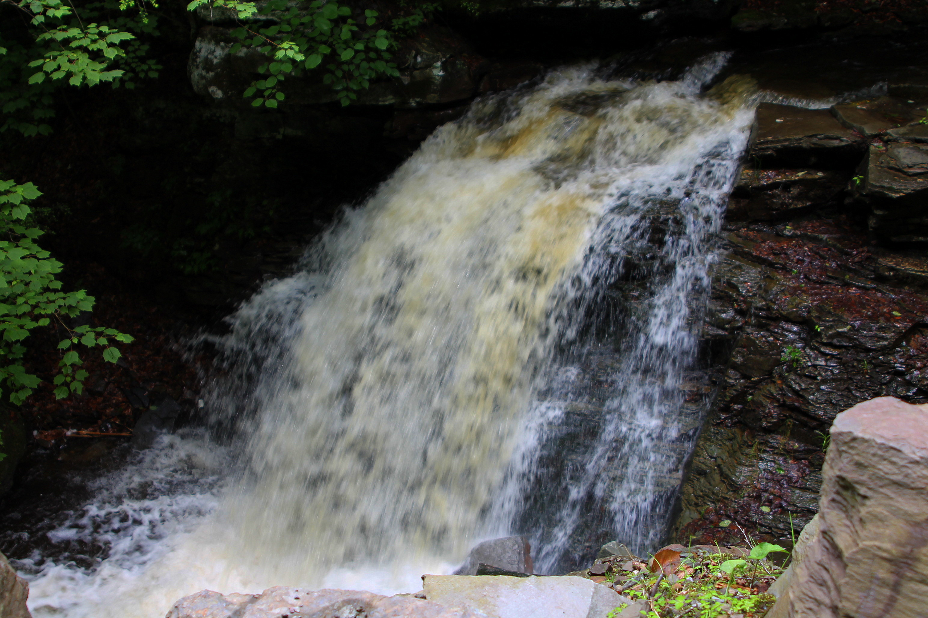 Waterfall on Big Run, Sullivan County, PA